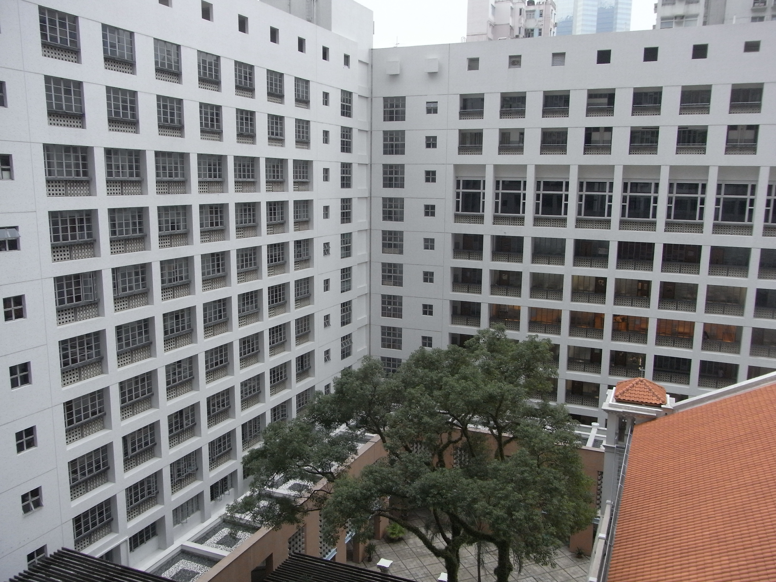 香港島zh:半山區 嘉諾撒聖心商學書院